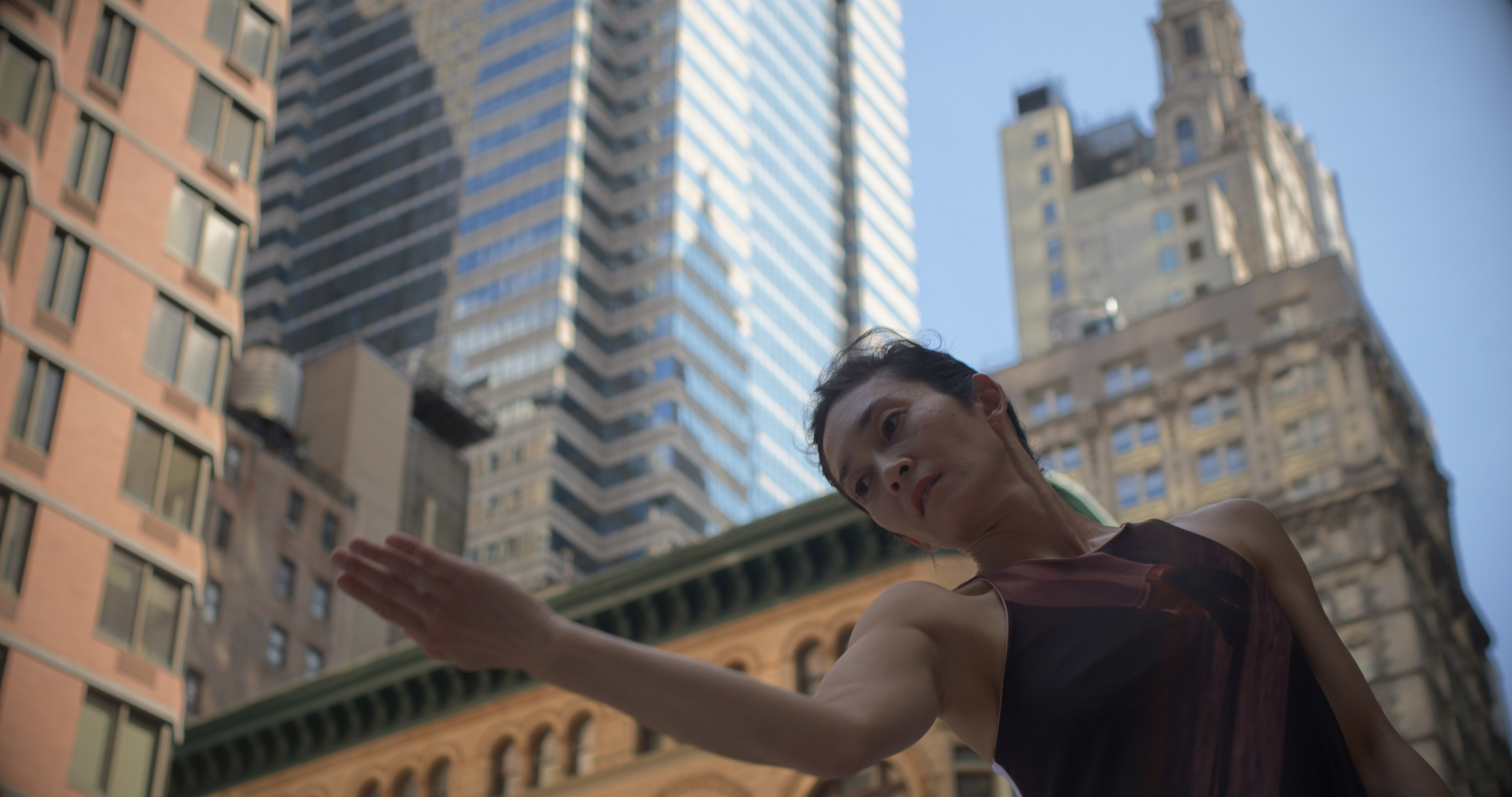 Pam Tanowitz, Time is forever moving toward innumerable futures, presented as part of the 2019 River To River Festival